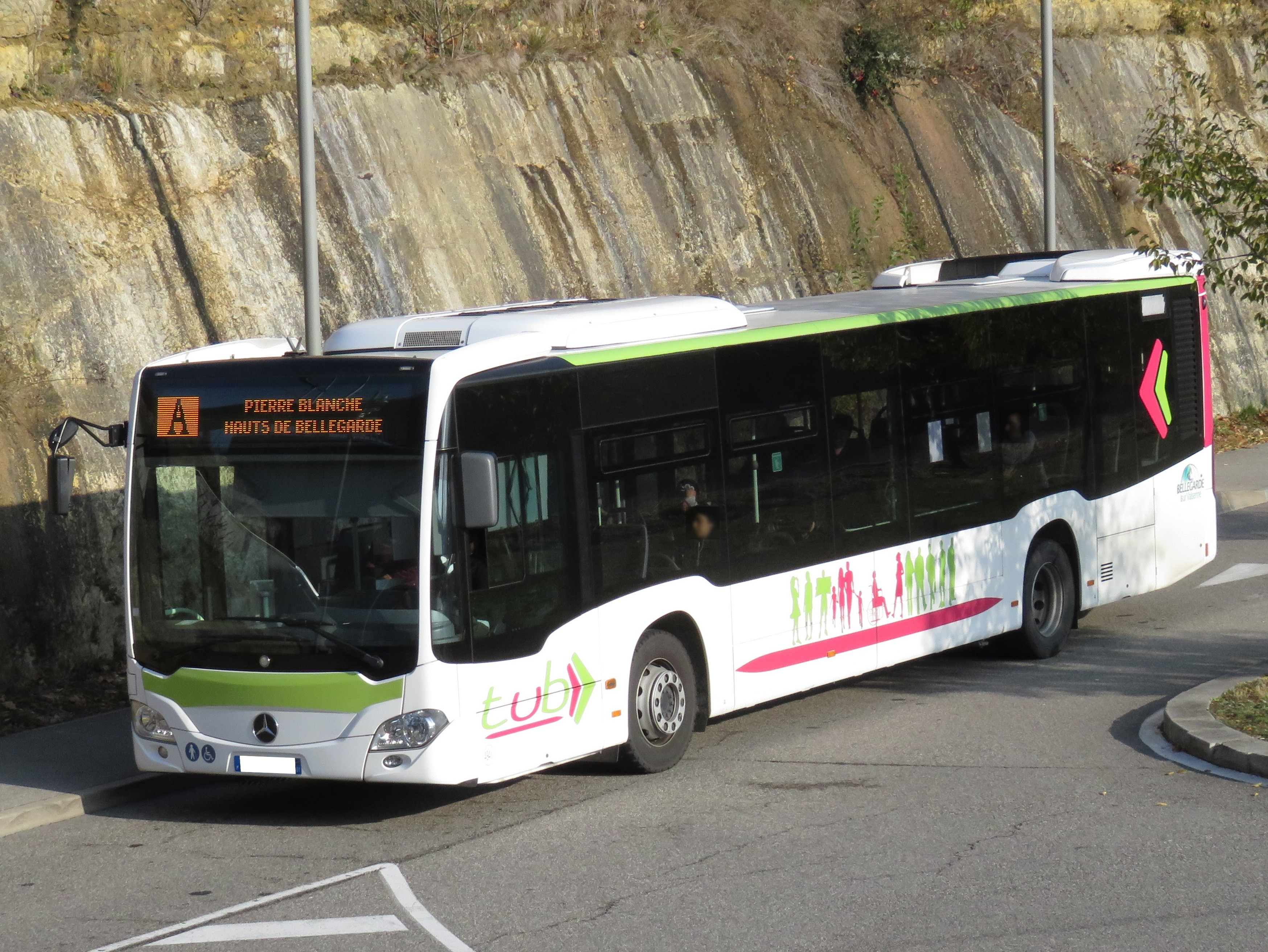 A Mercedes-Benz Citaro C2 (n°494U of the RDTA) running on TUB’s line A — Arlod Rhône, Bellegarde-sur-Valserine↔Pierre Blanche, Bellegarde-sur-Valserine — in the Rue Favre et Perreard (Bellegarde-sur-Valserine, France) on November 17, 2017.